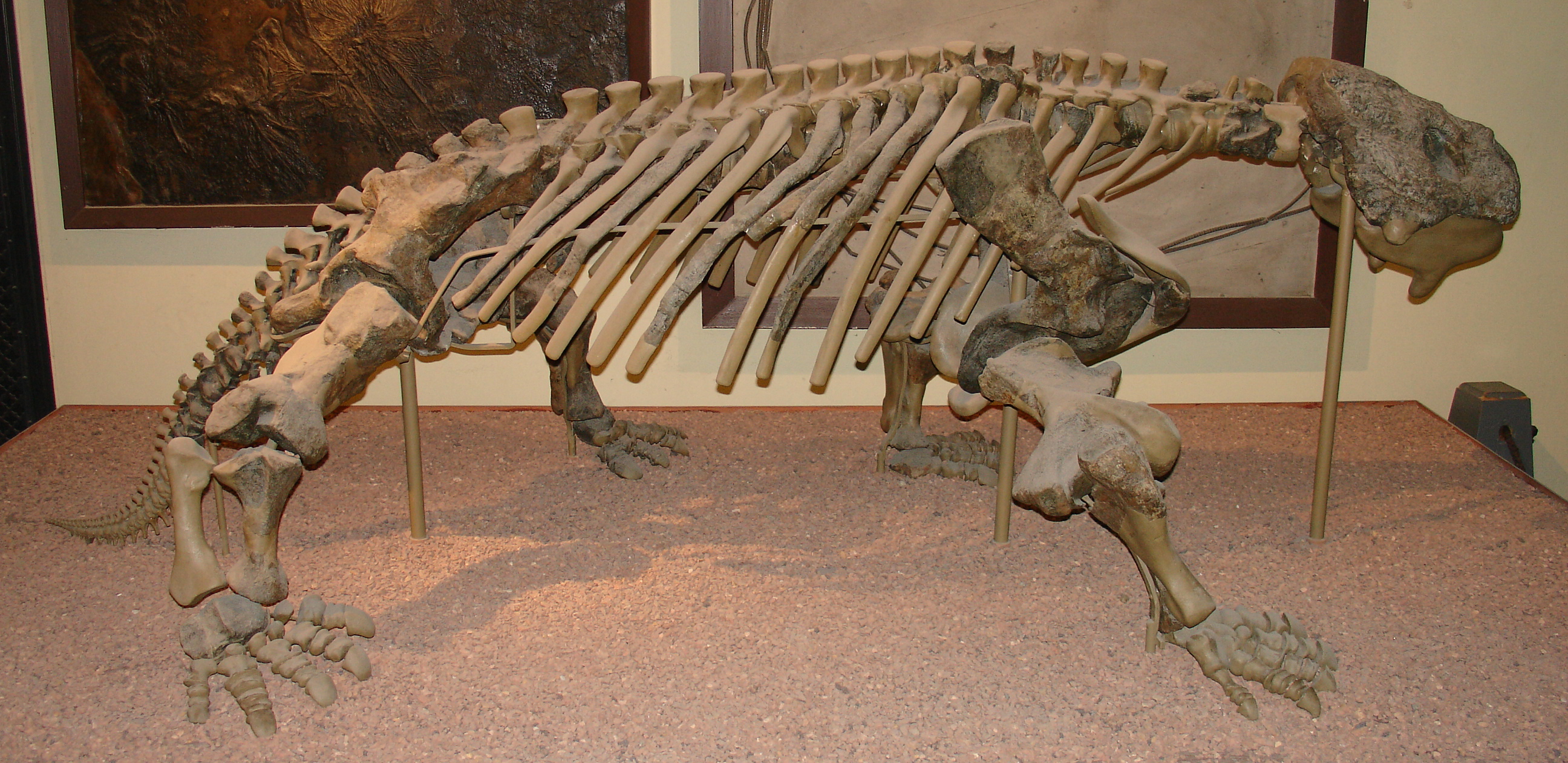 Bradysaurus baini - reconstructed skeleton. The exhibit from the Museum of Natural History in Berlin (Museum für Naturkunde) Bradysaurus baini - zrekonstruowany szkielet z Muzeum Historii Naturalnej w Berlinie